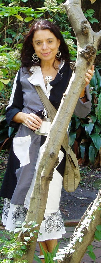 Alicia Borinsky in a garden in Buenos Aires.